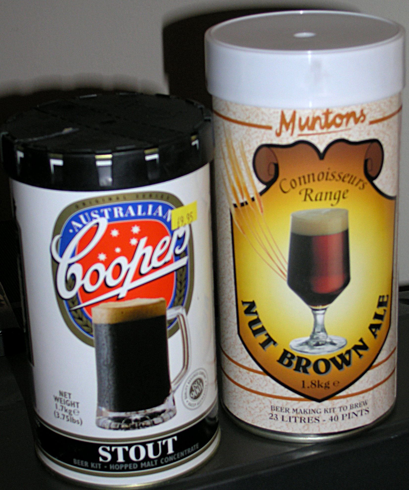 Homebrewing kits. Shermozle 15:59, 8 January 2006 (UTC)